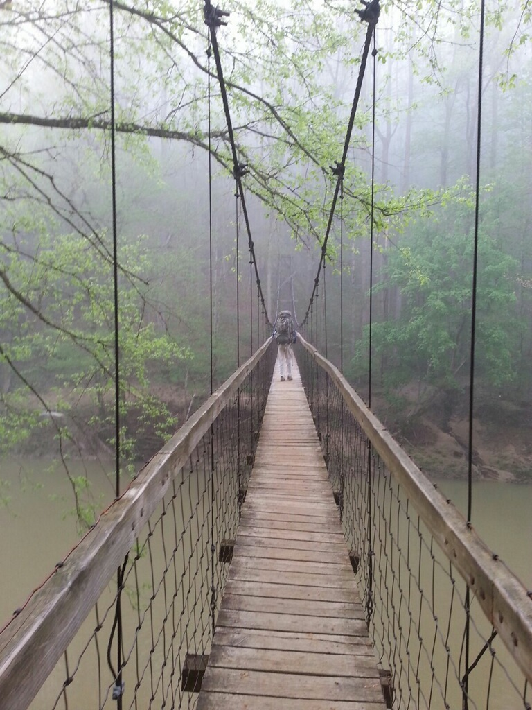 Hiker on suspension bridge over the Red River, on the Sheltowee Trace National Recreation Trail in Daniel Boone National Forest, Kentucky.